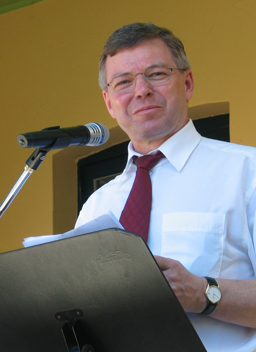 Kjell Magne Bondevik at the consecration of the Norwegian Seamen's Church in Sydney, Australia.